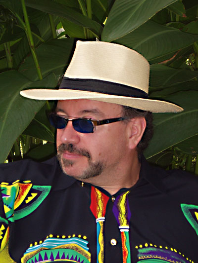 John Ferenzik in 2005